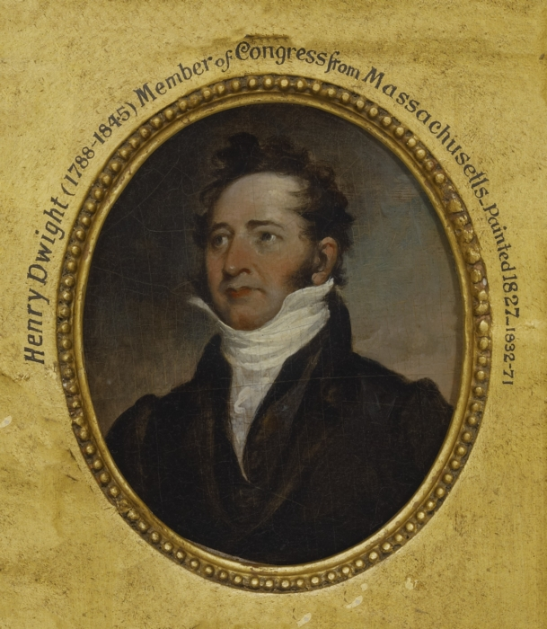 Yale University Art Gallery, Trumbull Collection. Courtesy of Yale University, New Haven, Conn.